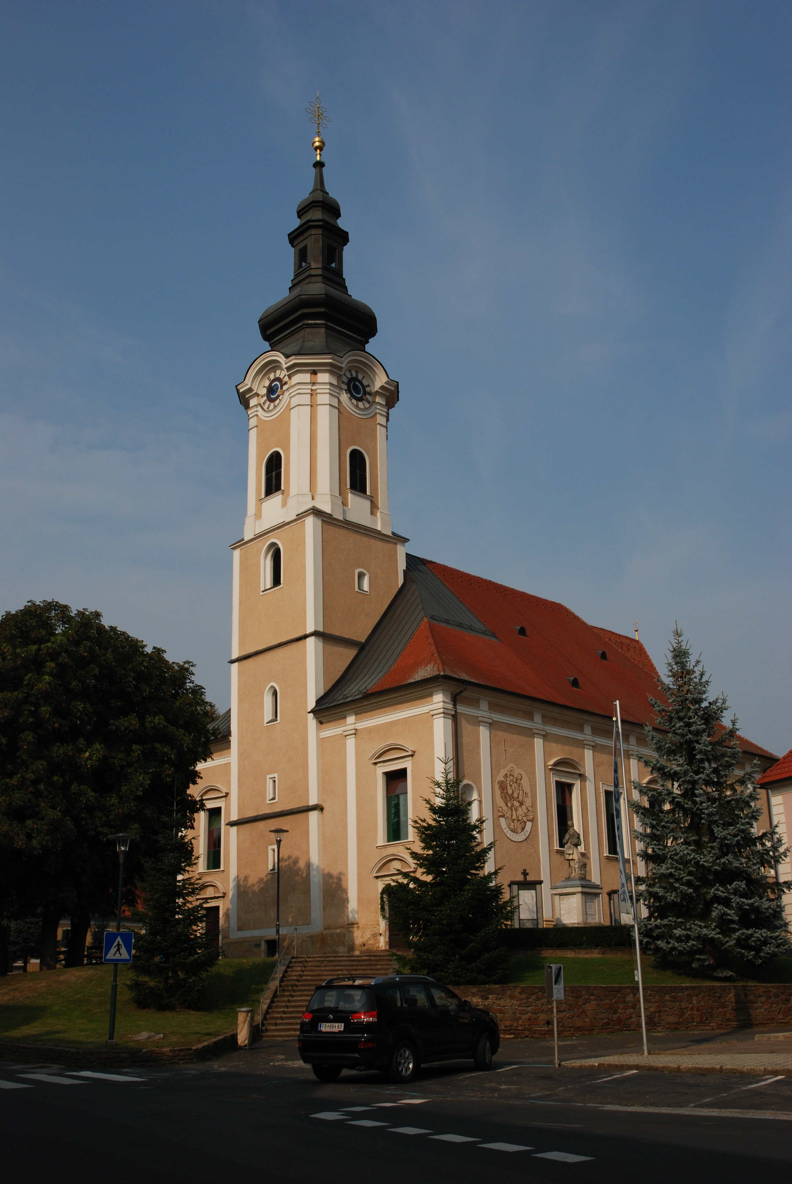 Kirche Gnas